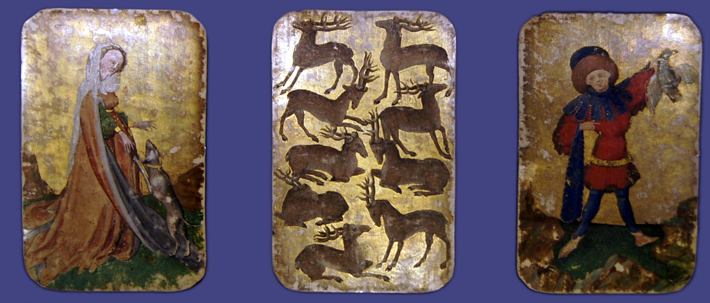 Stuttgarter Kartenspiel, Stuttgart Card Game, Basel area, about 1430, Landesmuseum Württemberg (Stuttgart, Kunstkammer)